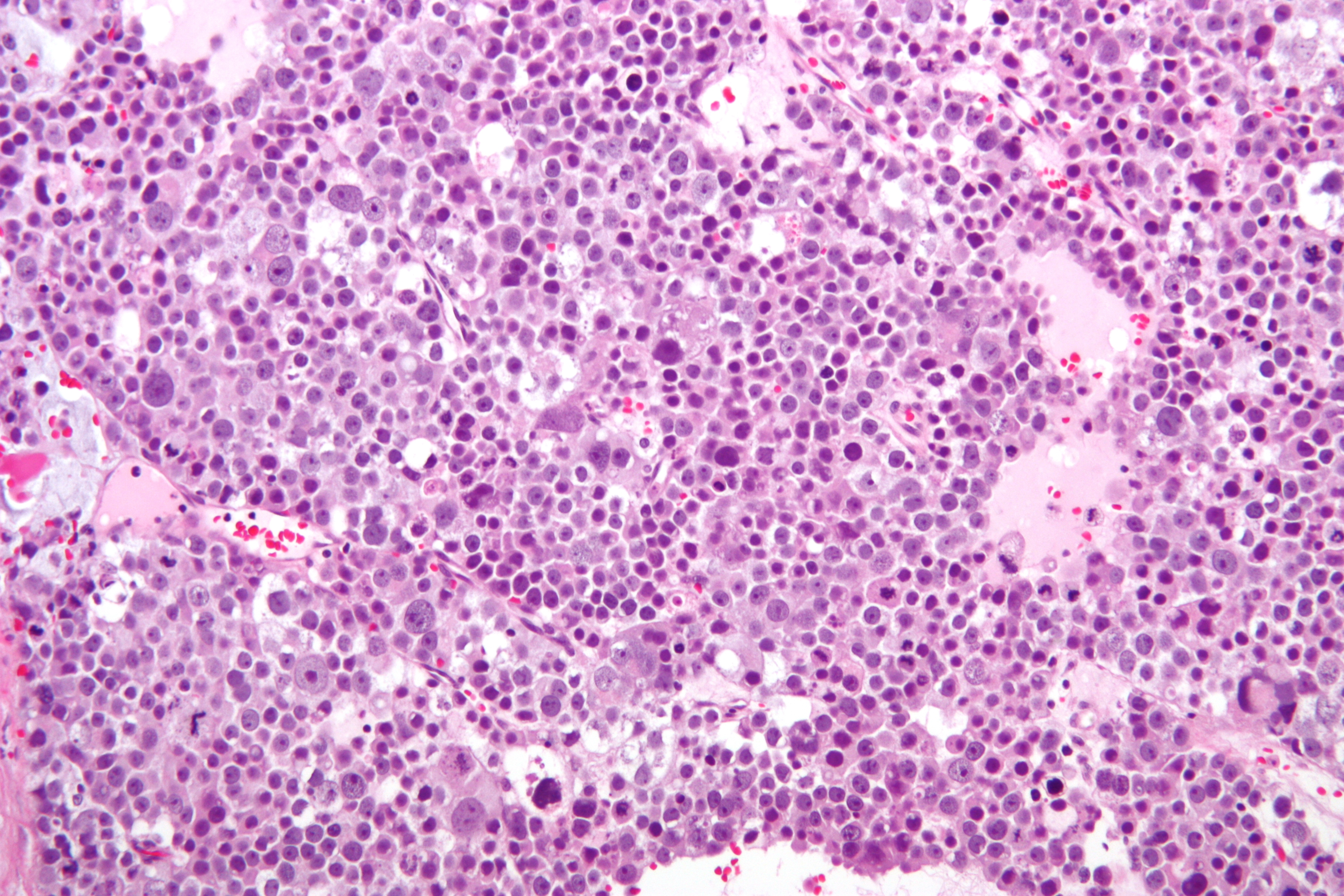 Micrograph of a spermatocytic seminoma. H&E stain. Features of spermatocytic seminoma: Population of three cells. Small cells (6-8 µm) - with a large NC ratio. Look like secondary spermatocytes. Medium cells (15-18 µm) with prominent nucleoli. Filamentous chromatin (AKA spireme chromatin). Large cells (50-100 µm). Filamentous chromatin. Mucoid lakes. Intratubular spread (not seen on this image). Related images High mag.